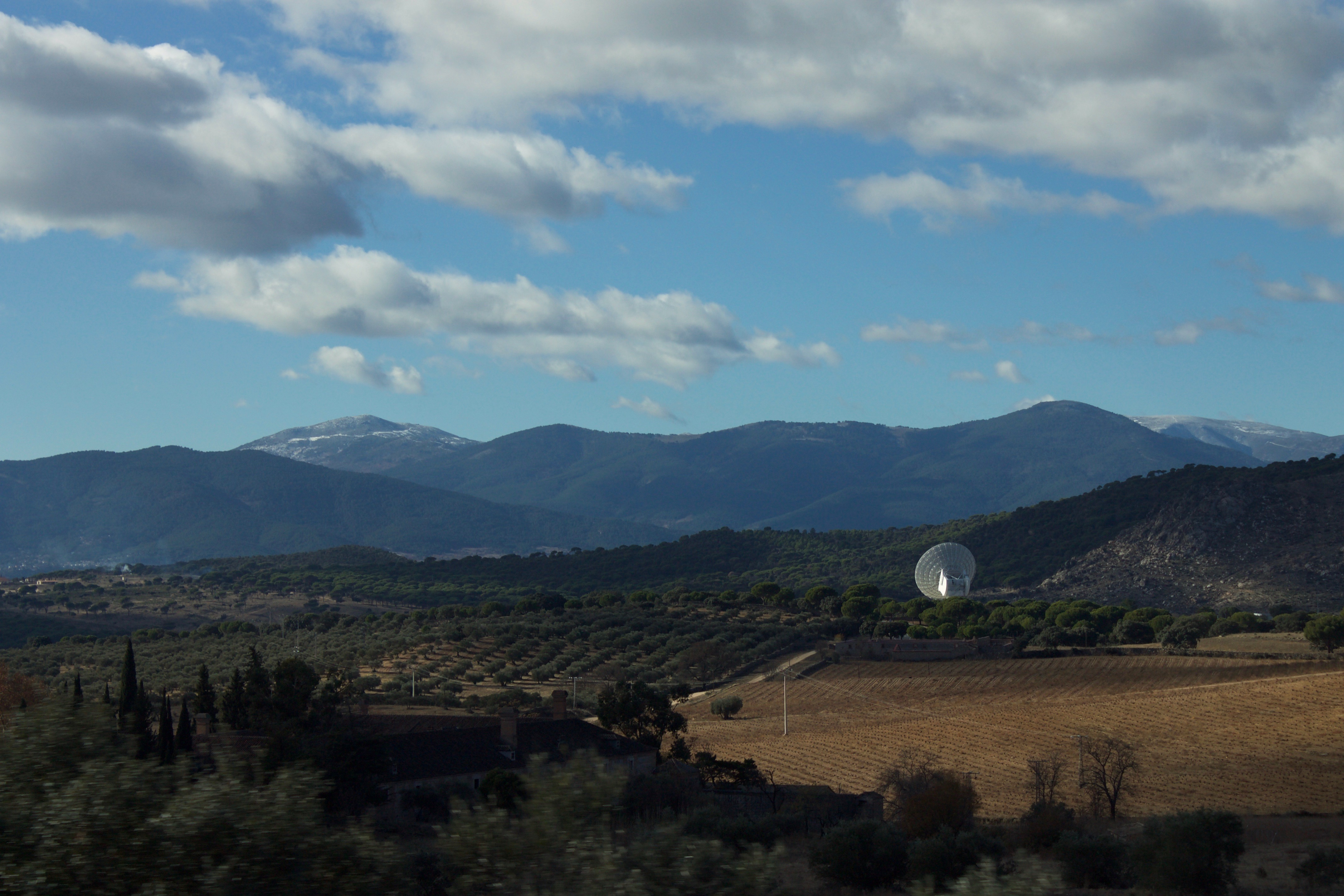 Landscape surrounding ESA's Cebreros Station, with the Sierra de Gredos mountains in the background